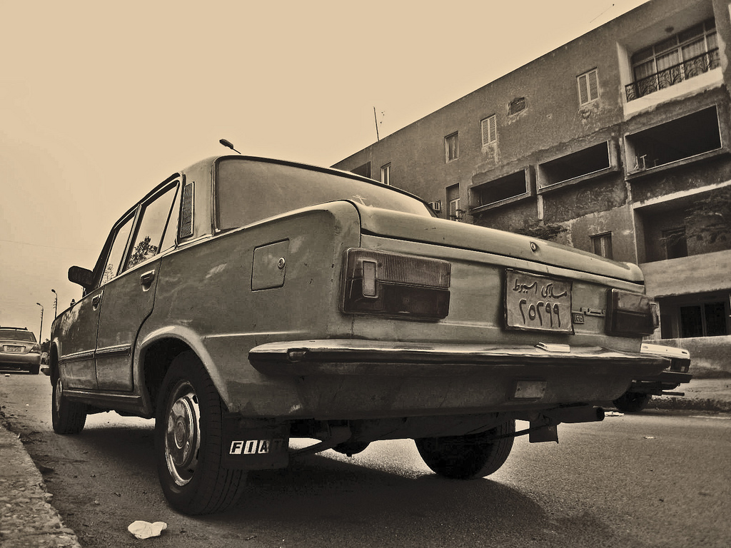 Nasr 125 - Polski Fiat 125p produced under FSO license by Nasr between 1972 and 1983. The vehicle on the picture is based on MR'75, MR'76 or MR'77 version of Polski Fiat 125p (as evidenced by the horizontal rear lights, simple bumpers without the "fangs" and the presence of the lock on the trunk).